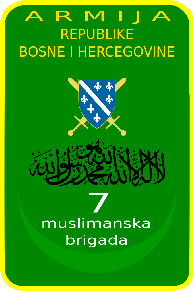 The logo of the 7th Muslim Brigade of the Army of the Republic of Bosnia and Herzegovina